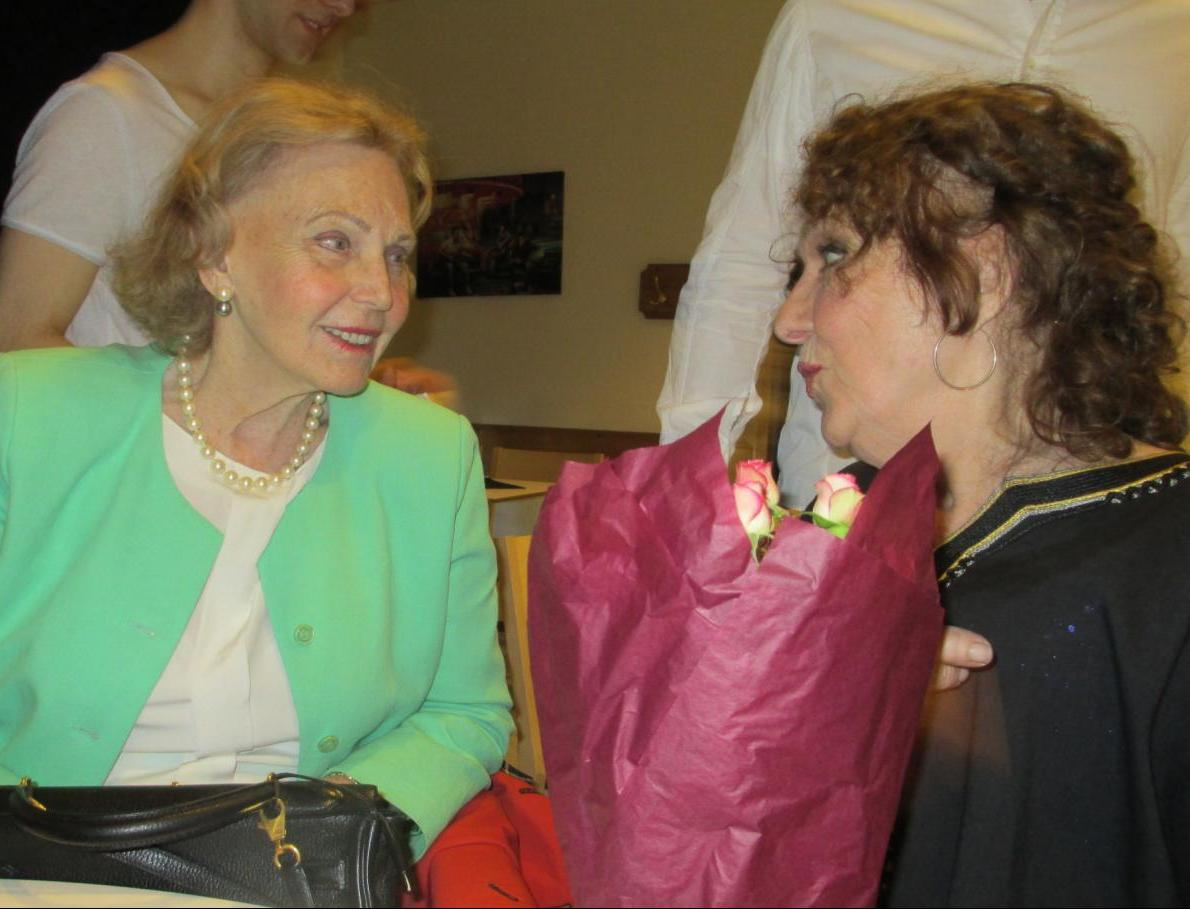 Princess Marianne Bernadotte & old friend Gunvor Pontén after Vår kabaré show which the former attended & the later appeared in, as released by image creator CabarEng.